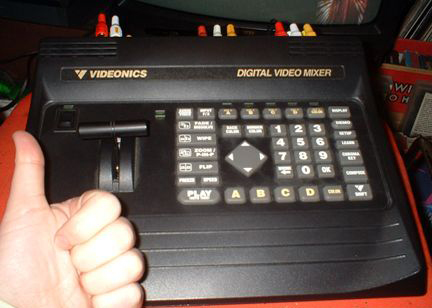 This is a picture of the Videonics MX-Pro. It is one of the more basic models of analog video mixers and is quite popular with emerging VJs.